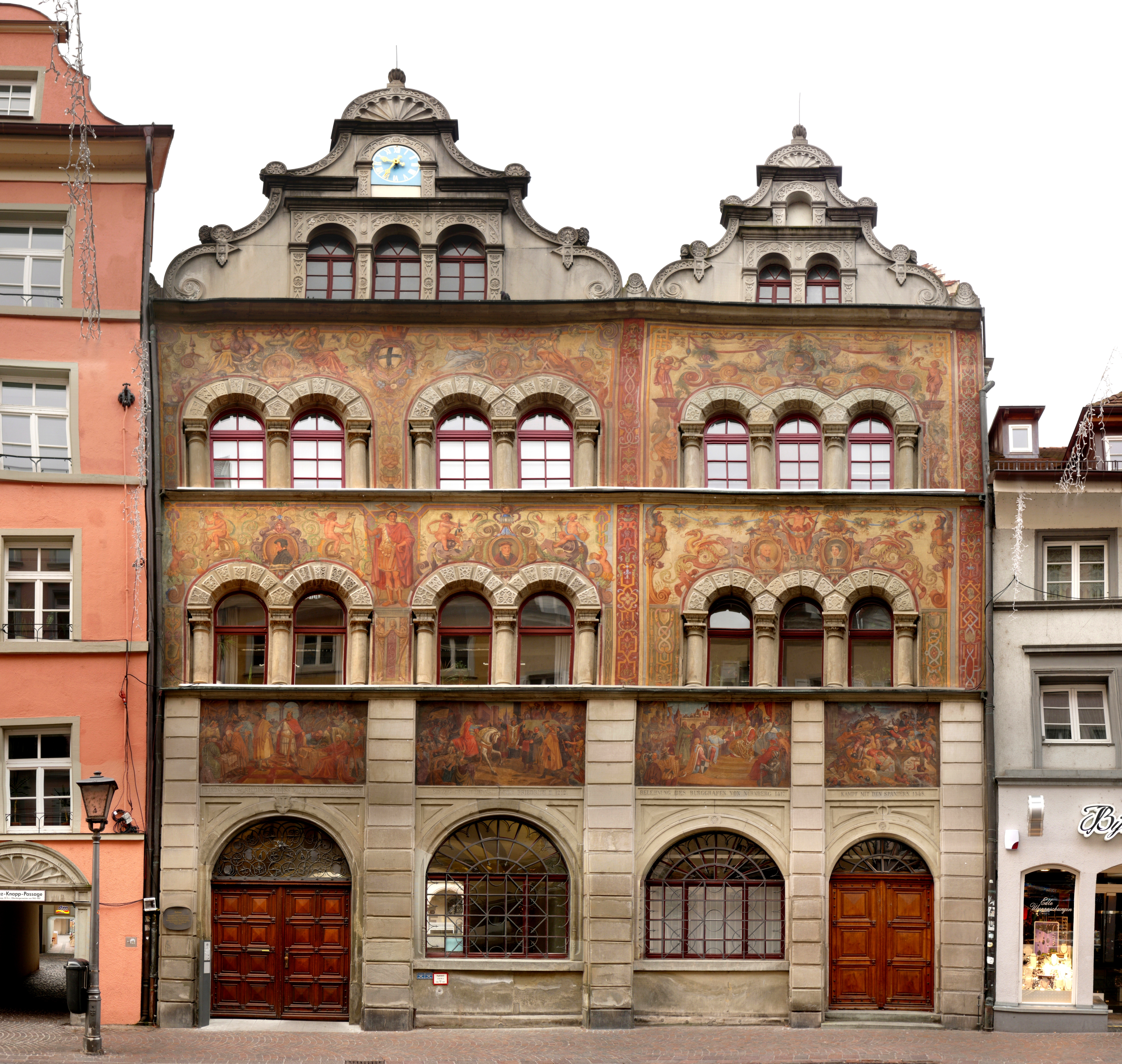 Town hall of Konstanz (composition of several smaller images, contains some minor perspectivic flaws)